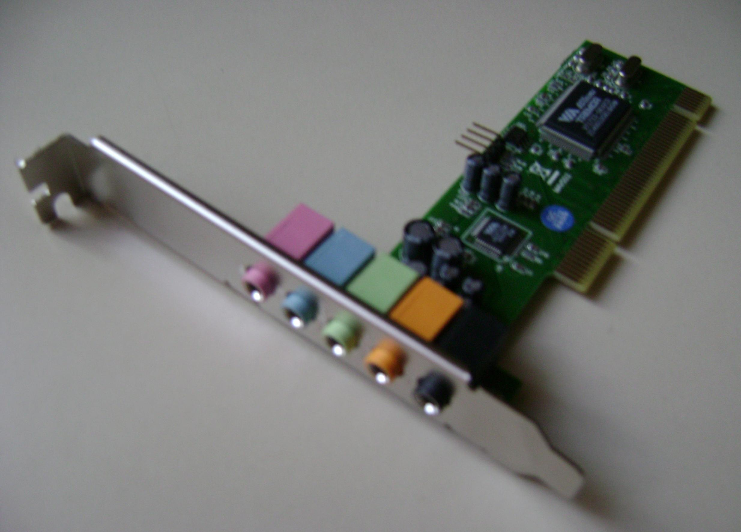 A simple sound chip.